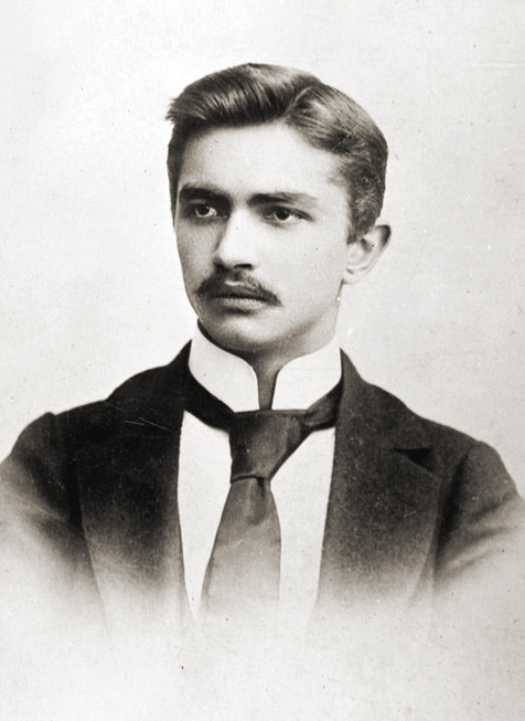 Walery Sławek (1879-1939) –Polish politician and military. in the early 1930s served three times as Prime Minister of Poland.